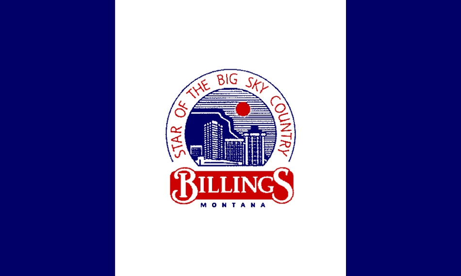 Official flag of the city of Billings, Montana, United States of America.